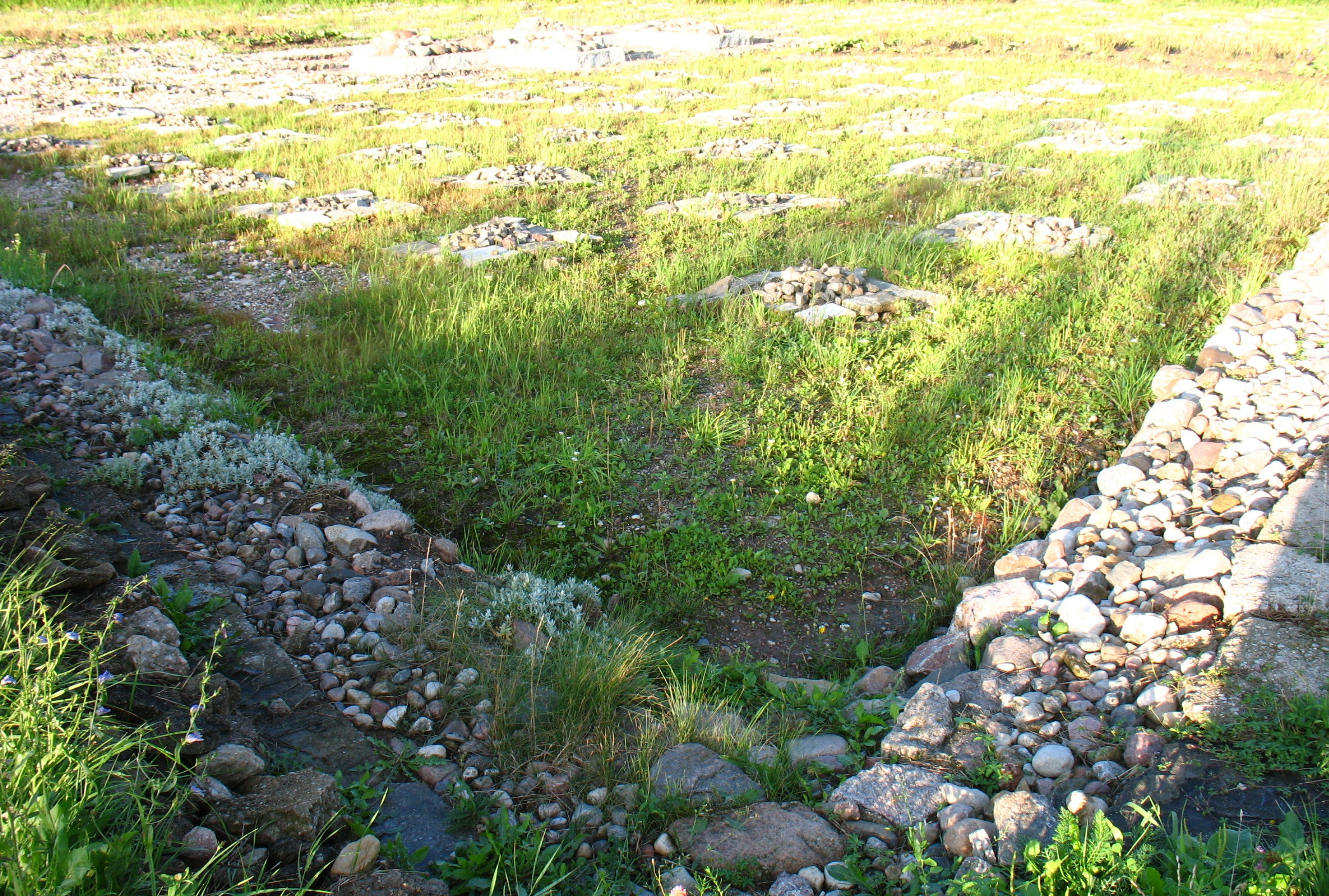 Atminimo laukas, Jonava